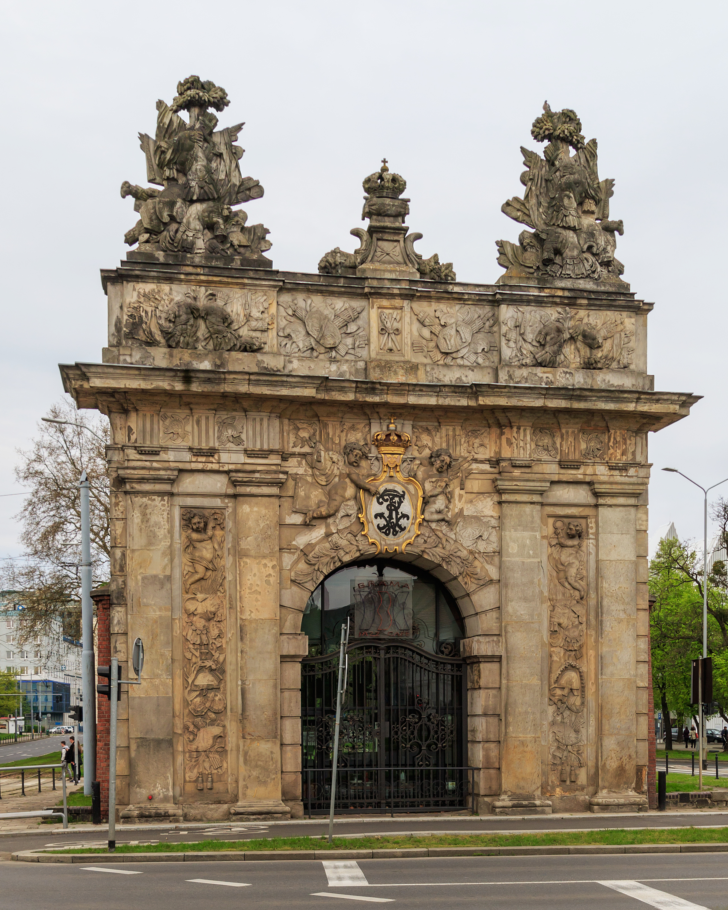 King's Gate in Szczecin (Poland)